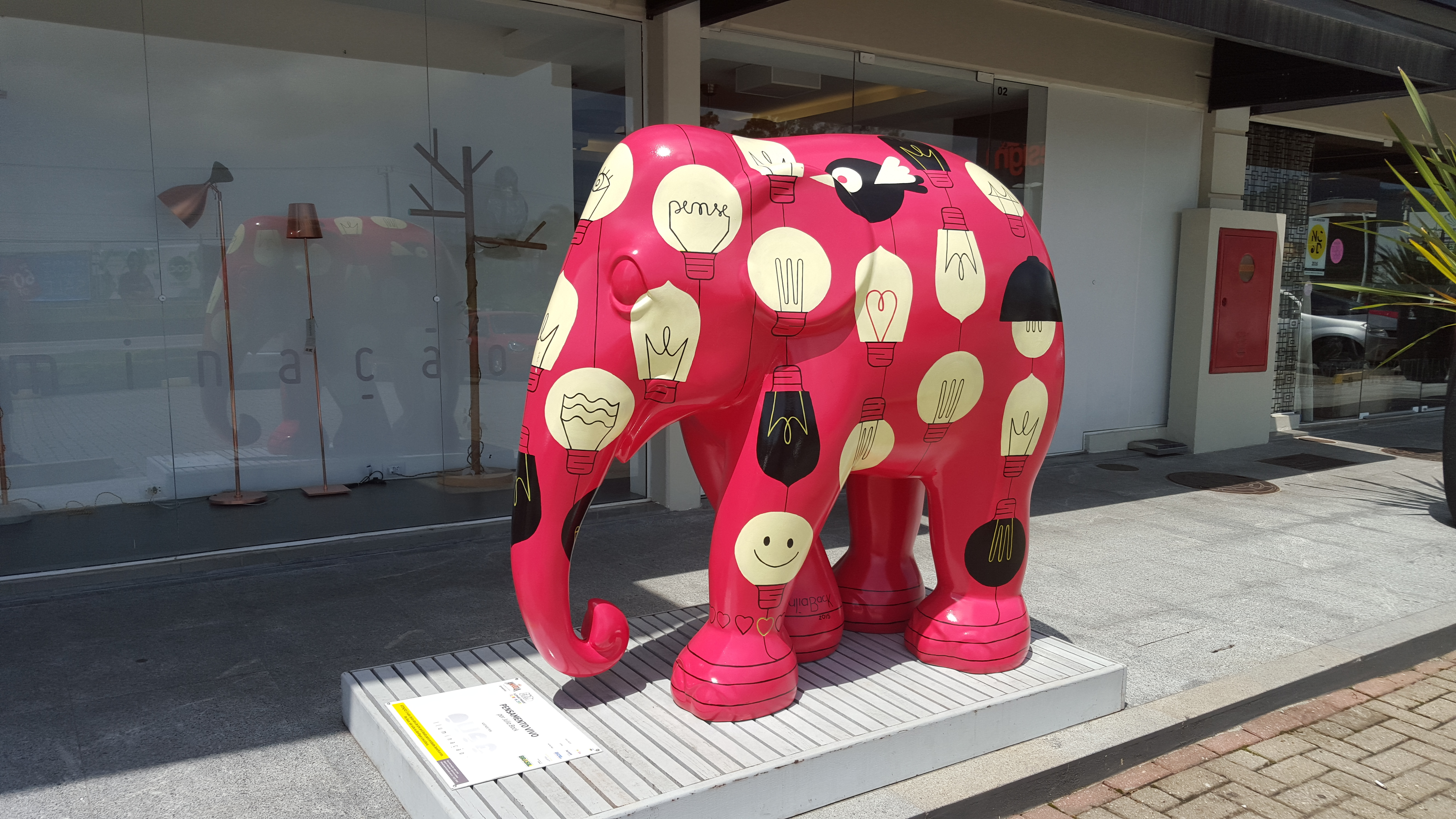 Elephant parade unit on display, red color. Júlia Back.